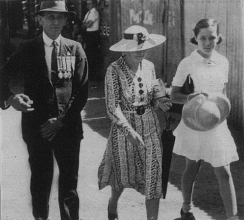 Caleb Shang DCM & Bar, MM, Anna Shang, Delta Shang. ANZAC Day 1943, Cairns. This was the only ANZAC Day parade that Caleb Shang ever marched in.